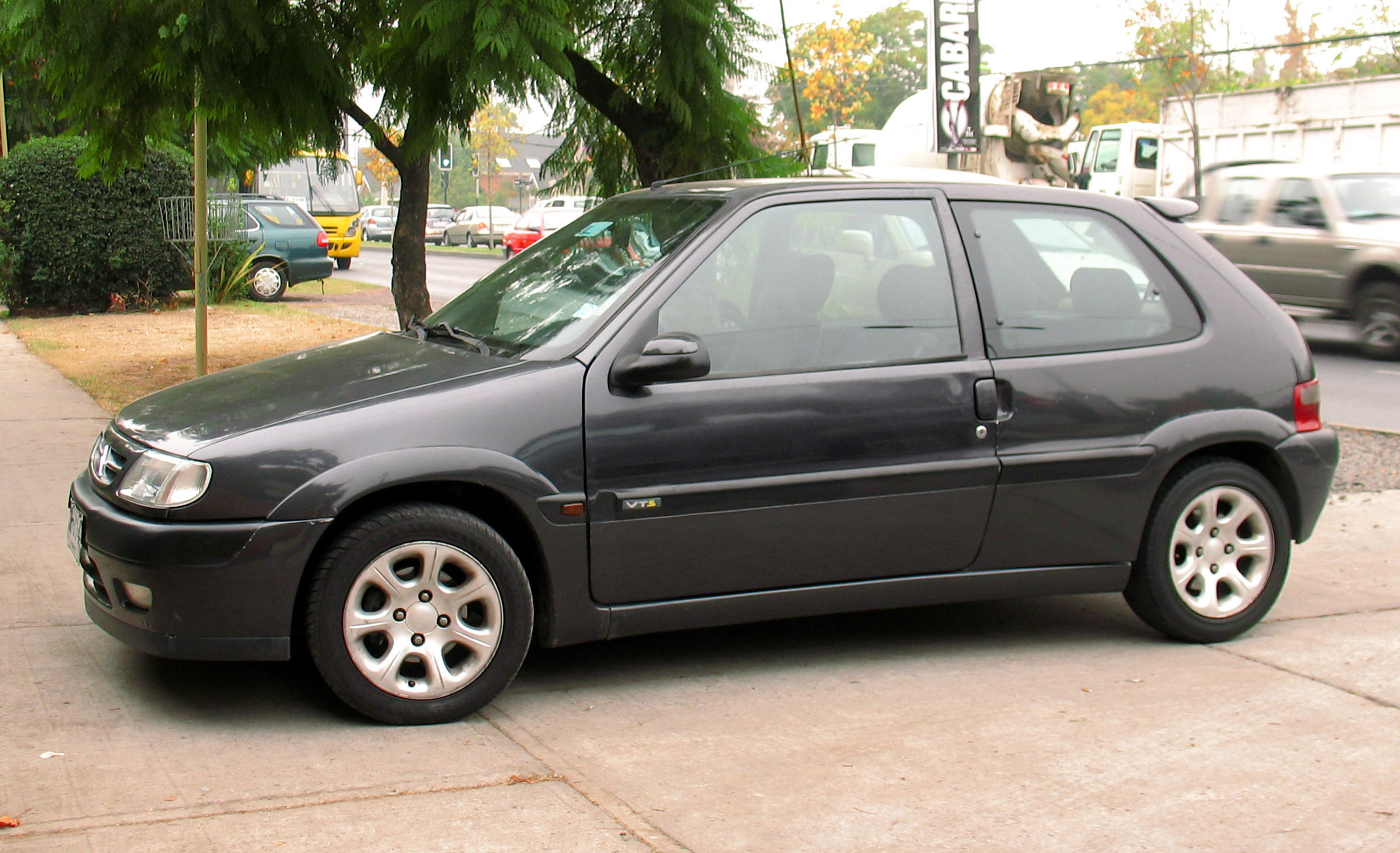 1998 Citroën Saxo VTS in Chile